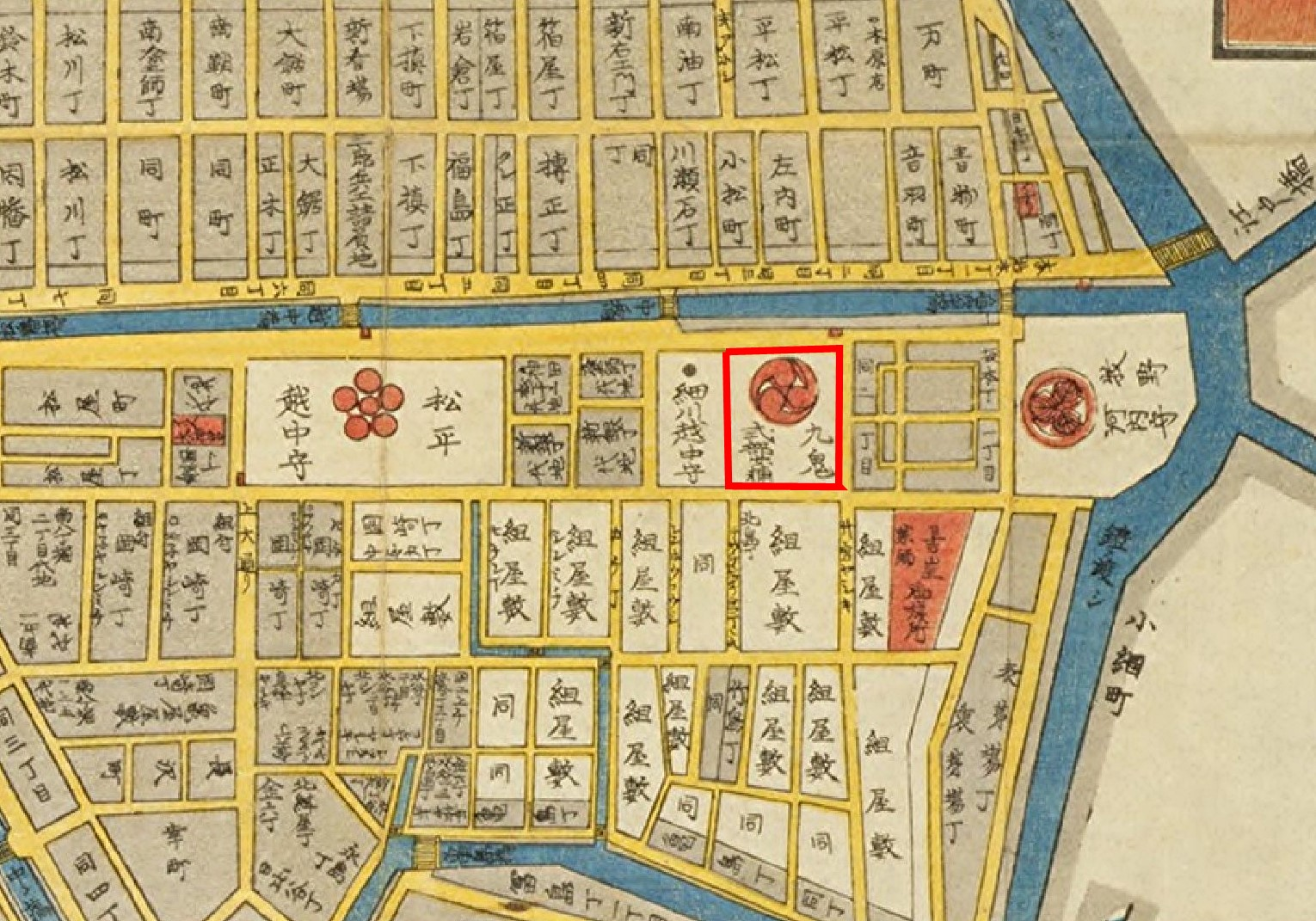 A residence of Kuki clan at Edo